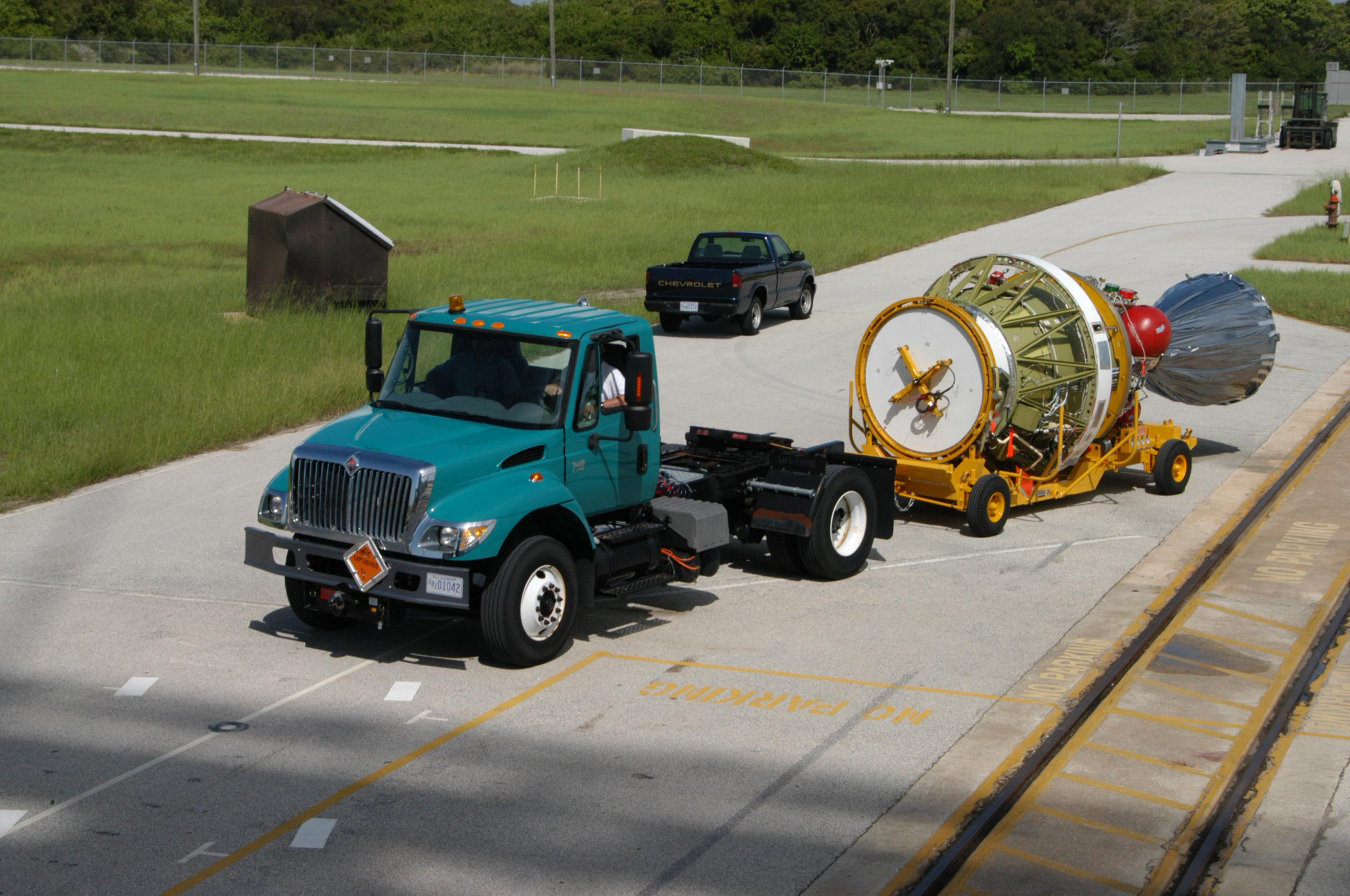 KENNEDY SPACE CENTER, FLA. – At Launch Pad 17-B on Cape Canaveral Air Force Station, the Boeing Delta II second stage for the STEREO launch arrives on a transporter. The second stage will be lifted into the mobile service tower and mated with the first stage already in place. STEREO stands for Solar Terrestrial Relations Observatory and comprises two spacecraft. The STEREO mission is the first to take measurements of the sun and solar wind in 3-dimension. This new view will improve our understanding of space weather and its impact on the Earth. STEREO is expected to lift off in August 2006. Photo credit: NASA/George Shelton